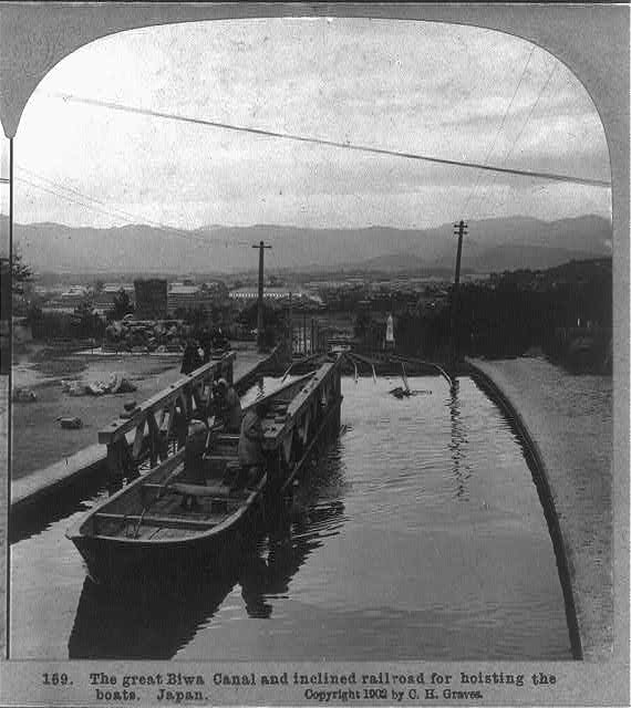 The great Biwa Canal and inclined railroad for hoisting the boats, Japan 琵琶湖疏水インクラインと船